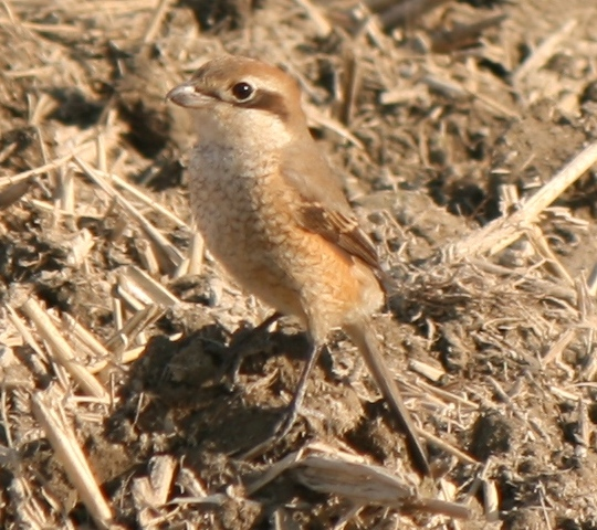 Lanius bucephalus (Bull-headed Shrike) female, in Japan